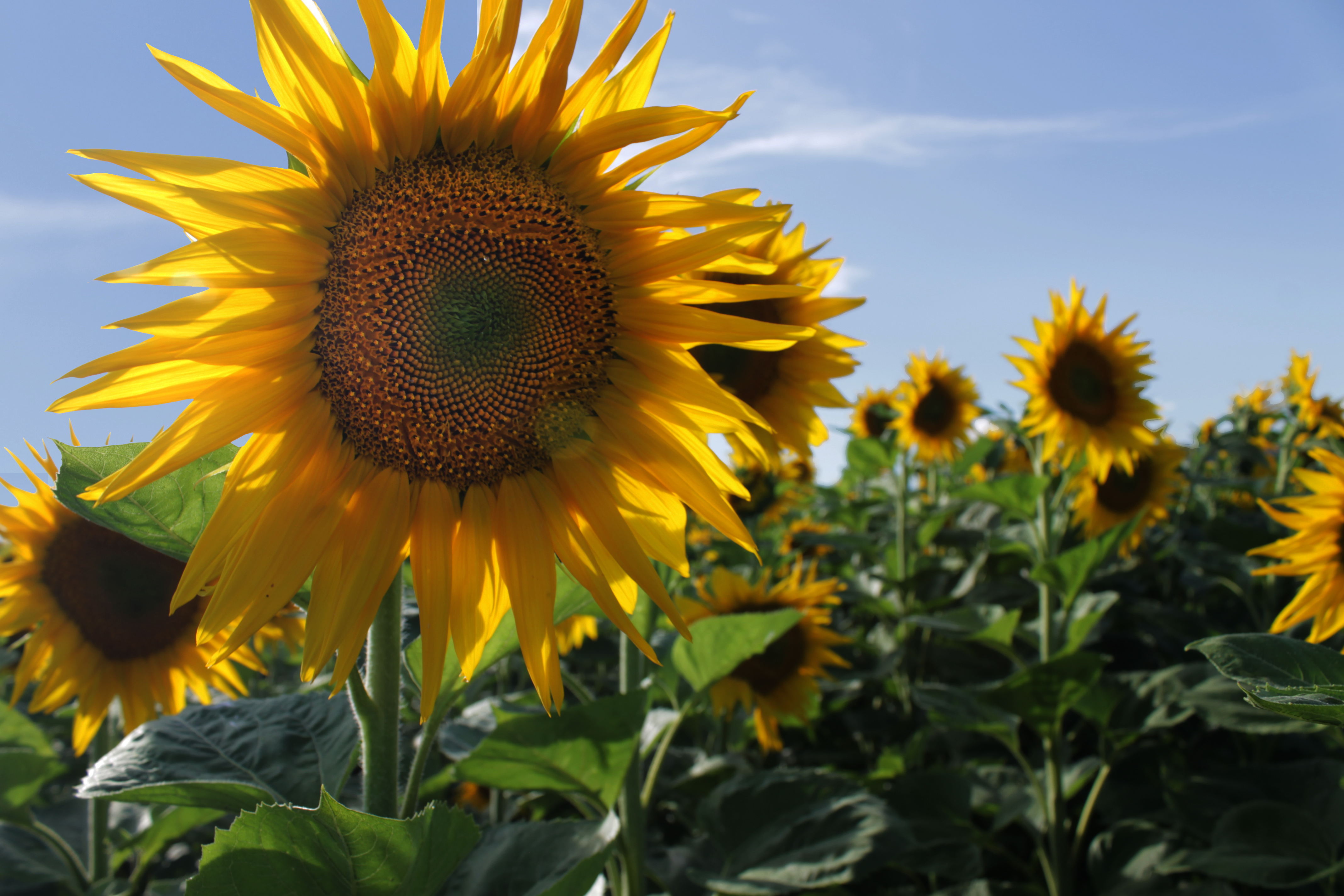 Sunflowers in Bulgaria